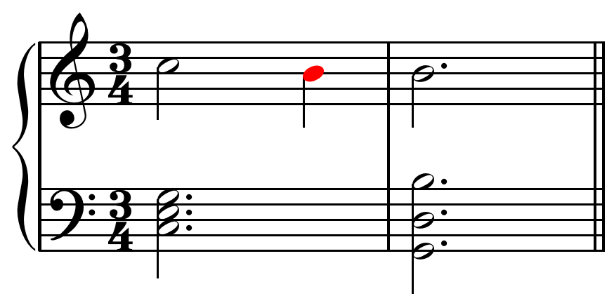 Anticipation example 1.